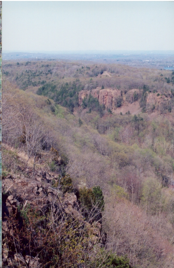 Cathole Mountain from South Mountain. Meriden, Connecticut. by Paul Gagnon, 2003.